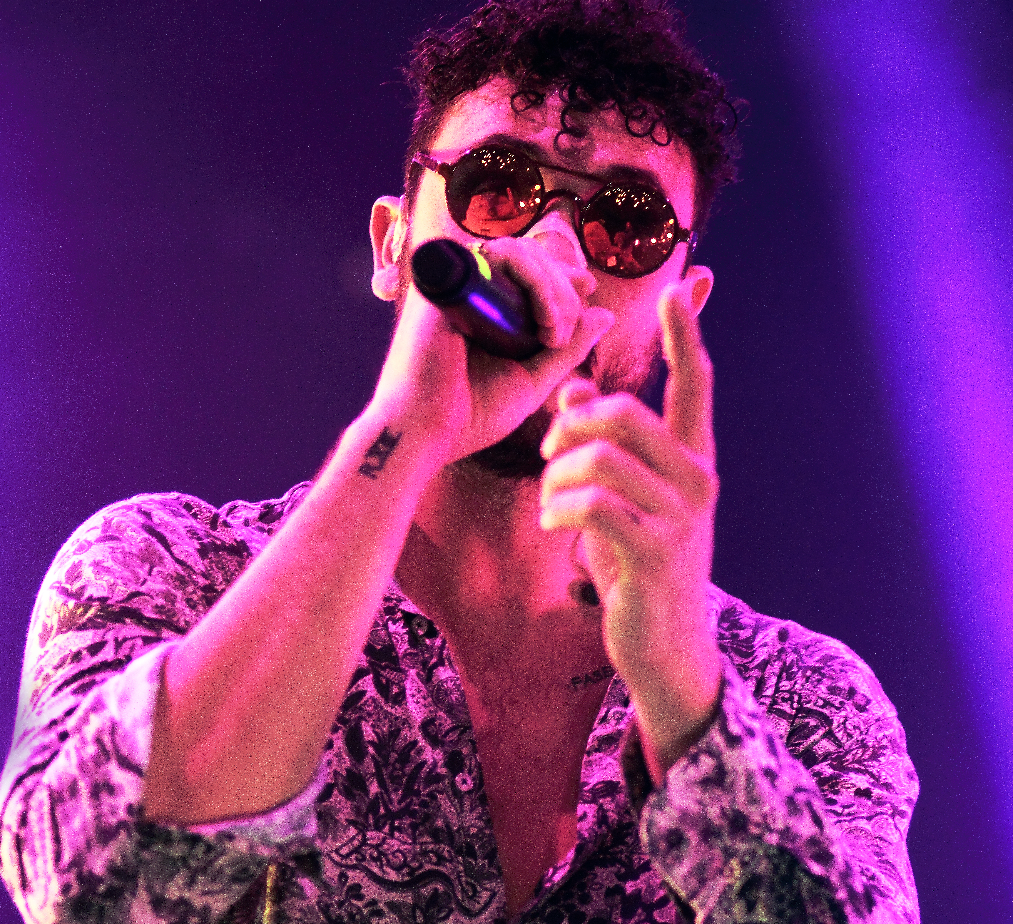 Italian singer and rapper Carl Brave performing live on 6 February 2016 in Rome